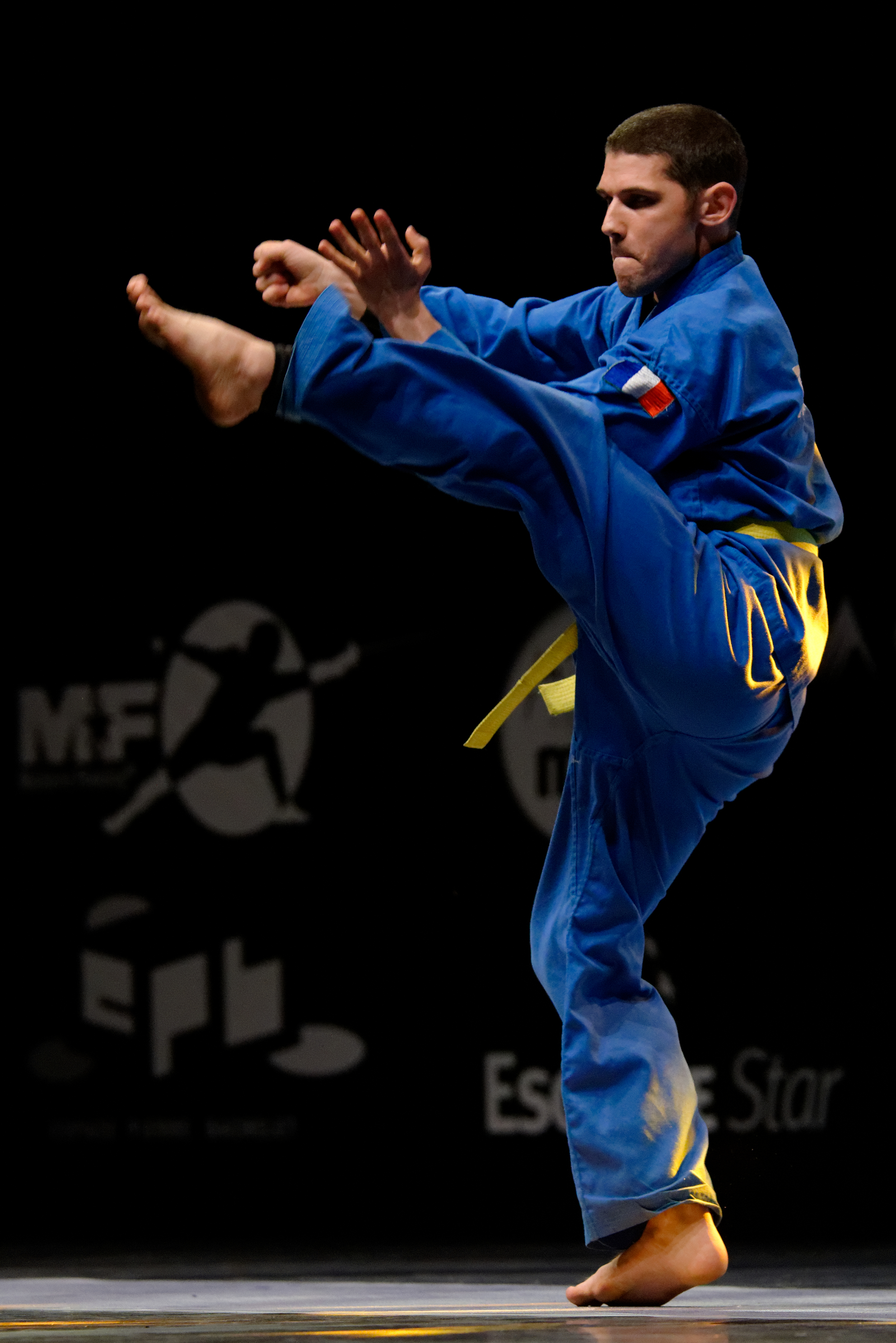 Vovinam demonstration at the 2014 Master de Fleuret Melun Val de Seine.